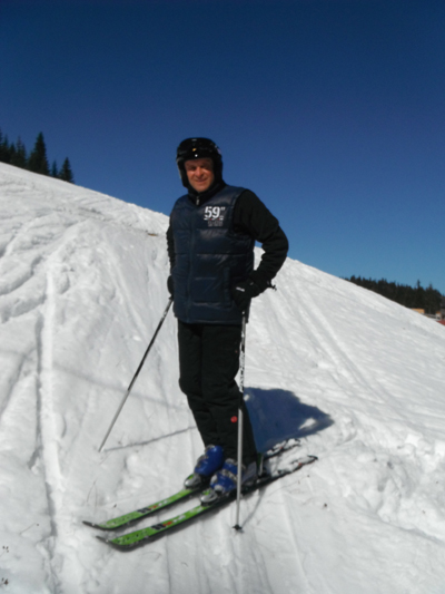 Dragan Djokanovic at skiing on Jahorina mountain (2014)